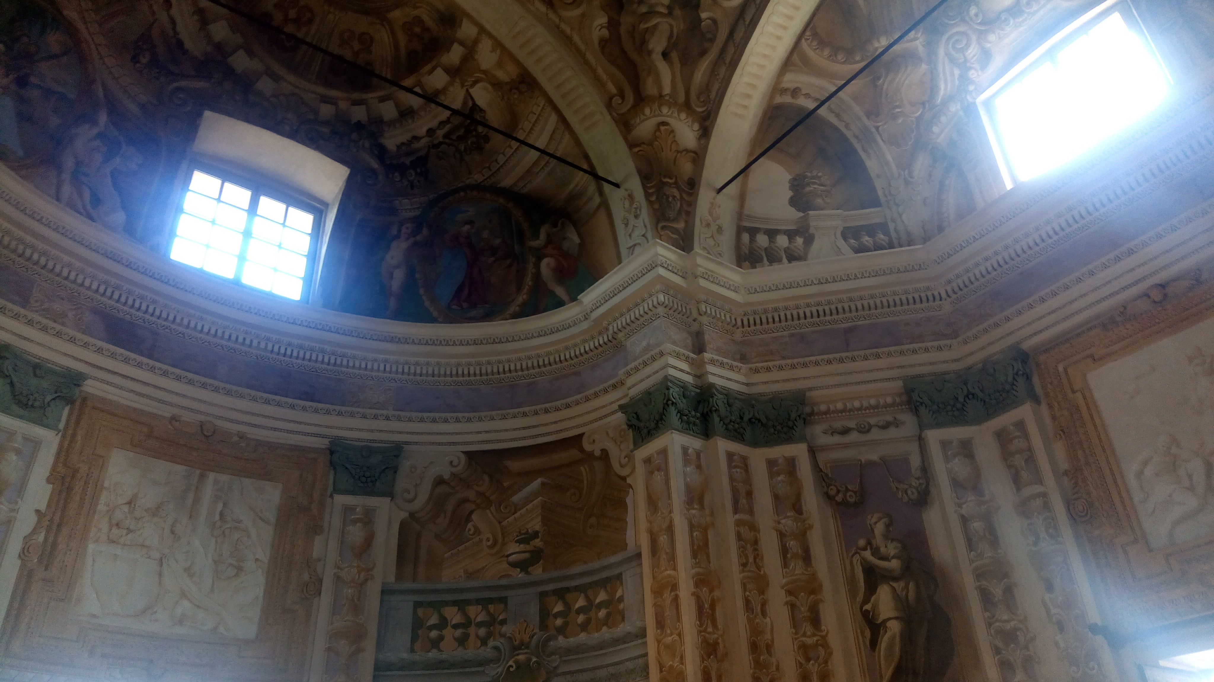 Serraglio Church